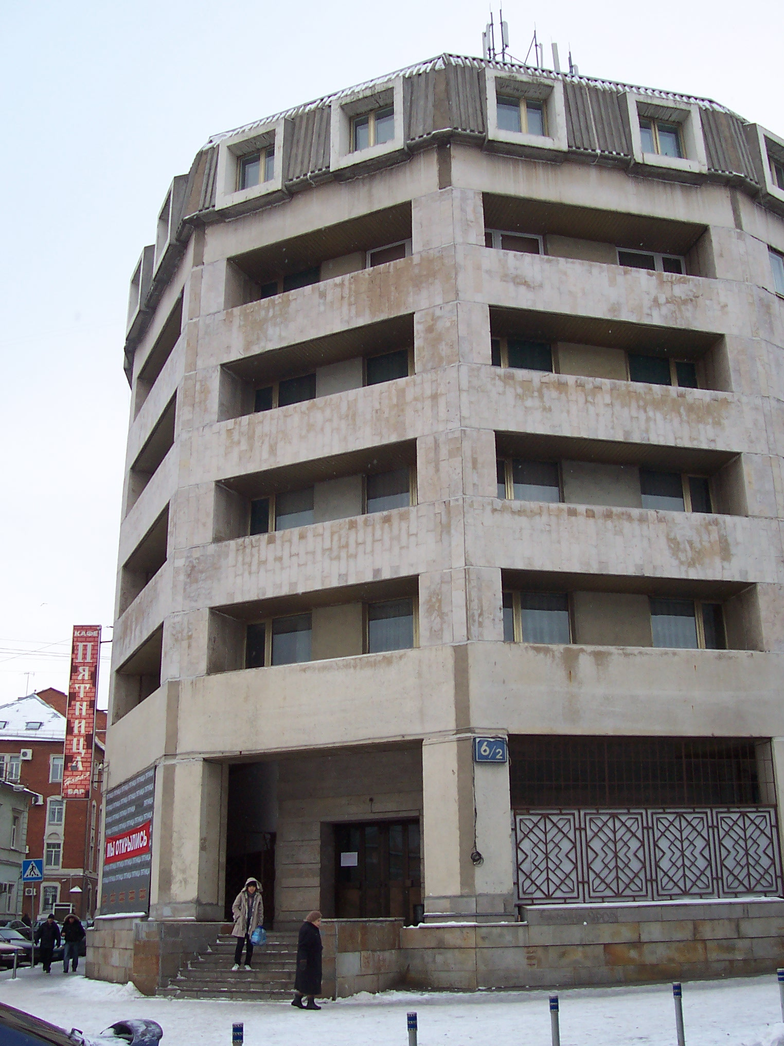 Residence of the Moscow State Linguistic University